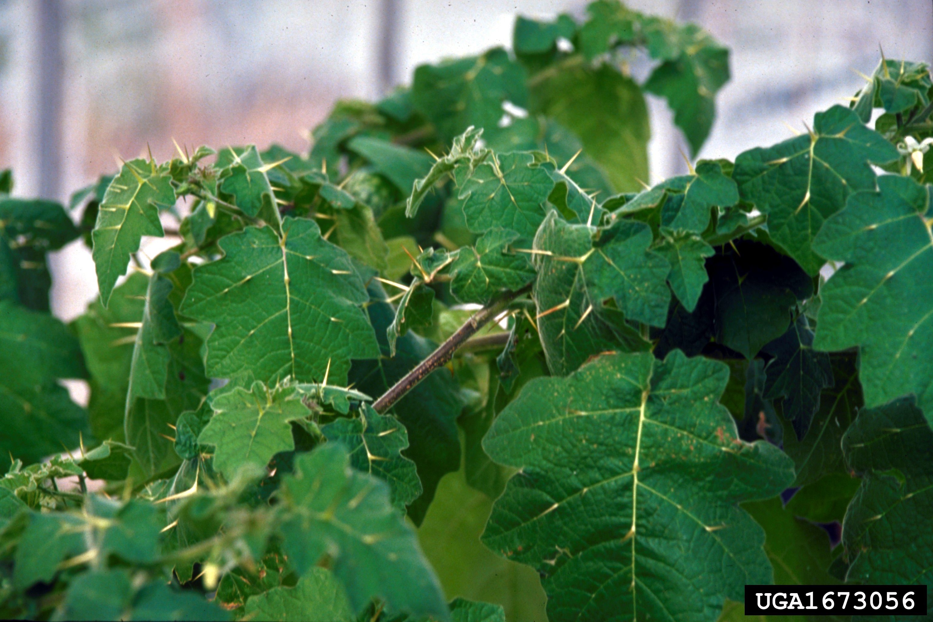 Foliage of Solanum viarum, closeup showing prickles